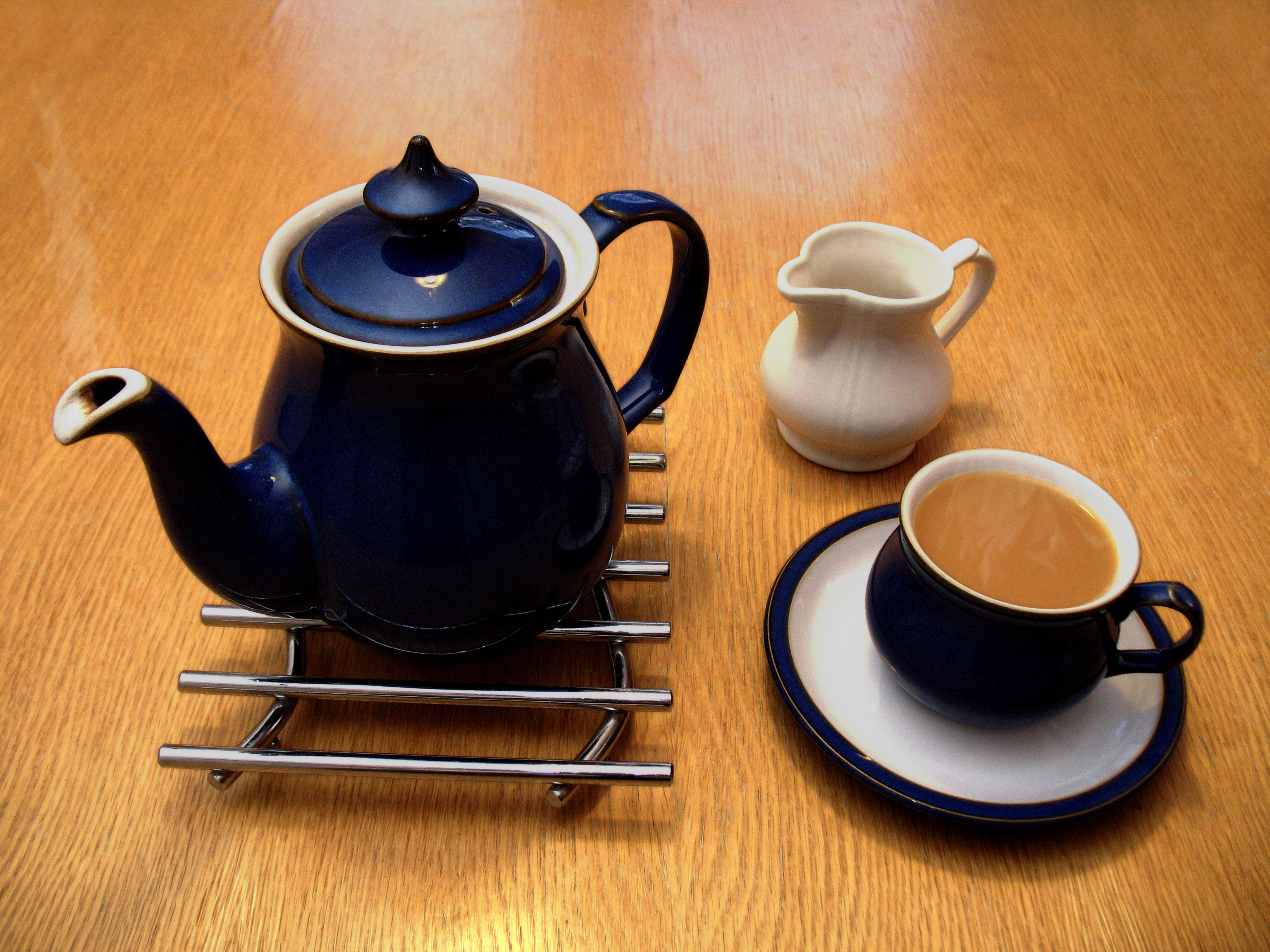 A nice cup of tea (and a sit down). A Denby teapot and cup with milk jug.